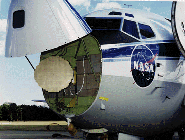 The microwave radar sensor is in the nose of the 737.